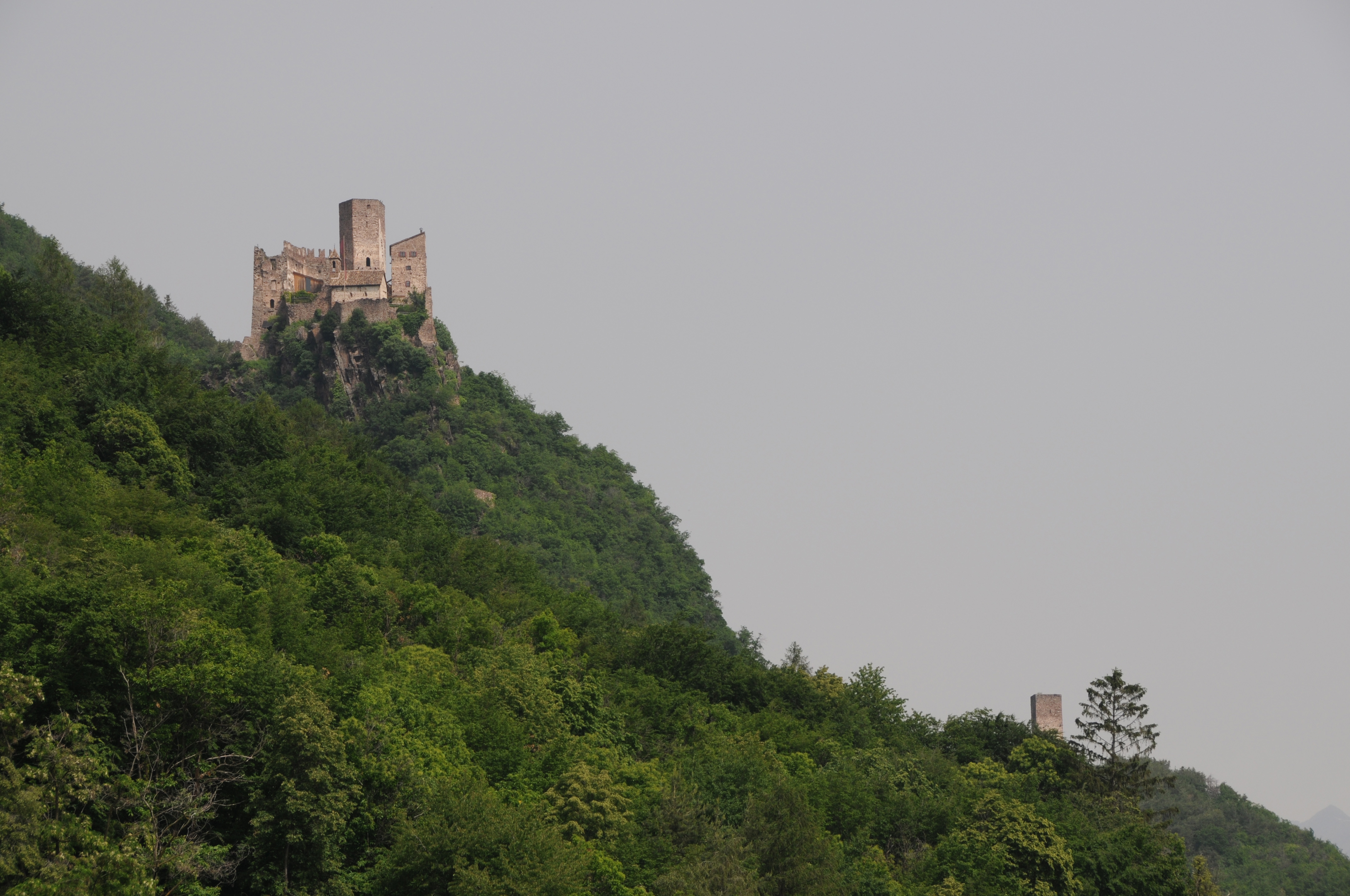 Castle Hocheppan, South Tyrol, view from Schloss Korb